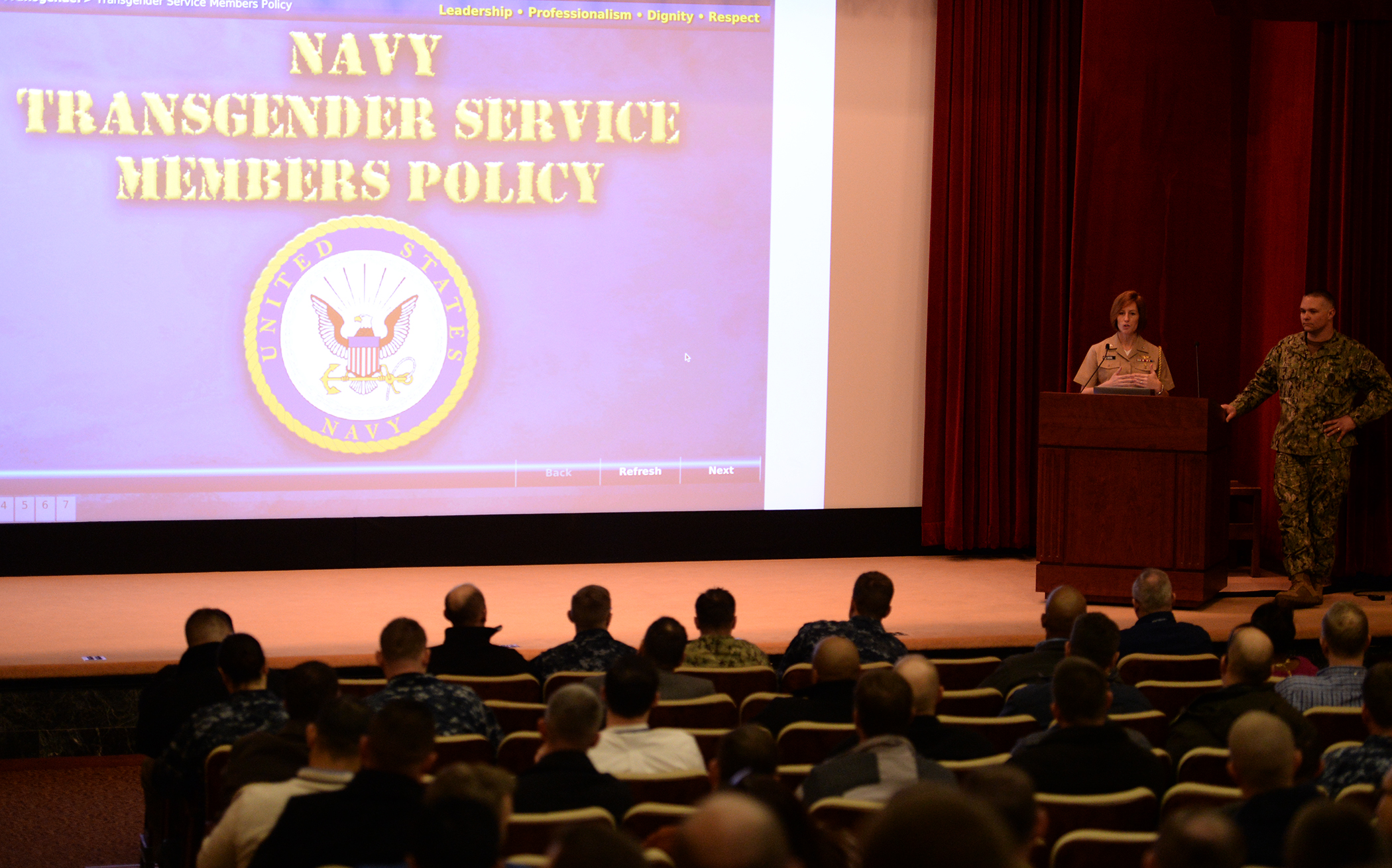 170110-N-XT779-005 NEWPORT, R.I. (Jan. 10, 2017) CAPT Tamara Graham, chief of staff at U.S. Naval War College (NWC), and Command Master Chief Craig Cole conduct mandatory Department of the Navy transgender policy training for Navy and Marine Corps military personnel at NWC in Newport, Rhode Island. On June 30, 2016, the Secretary of Defense announced that the Department of Defense had lifted the ban preventing transgender individuals from openly serving their nation in the military. In accordance with the new policy, all NWC military personnel are required to attend one of the four training sessions that will take place throughout January, which address the new procedures concerning transgender Sailors and Marines and provide time for policy questions to be answered. (U.S. Navy photo by Ezra Elliott/Released) VIRIN: 170110-N-XT779-005